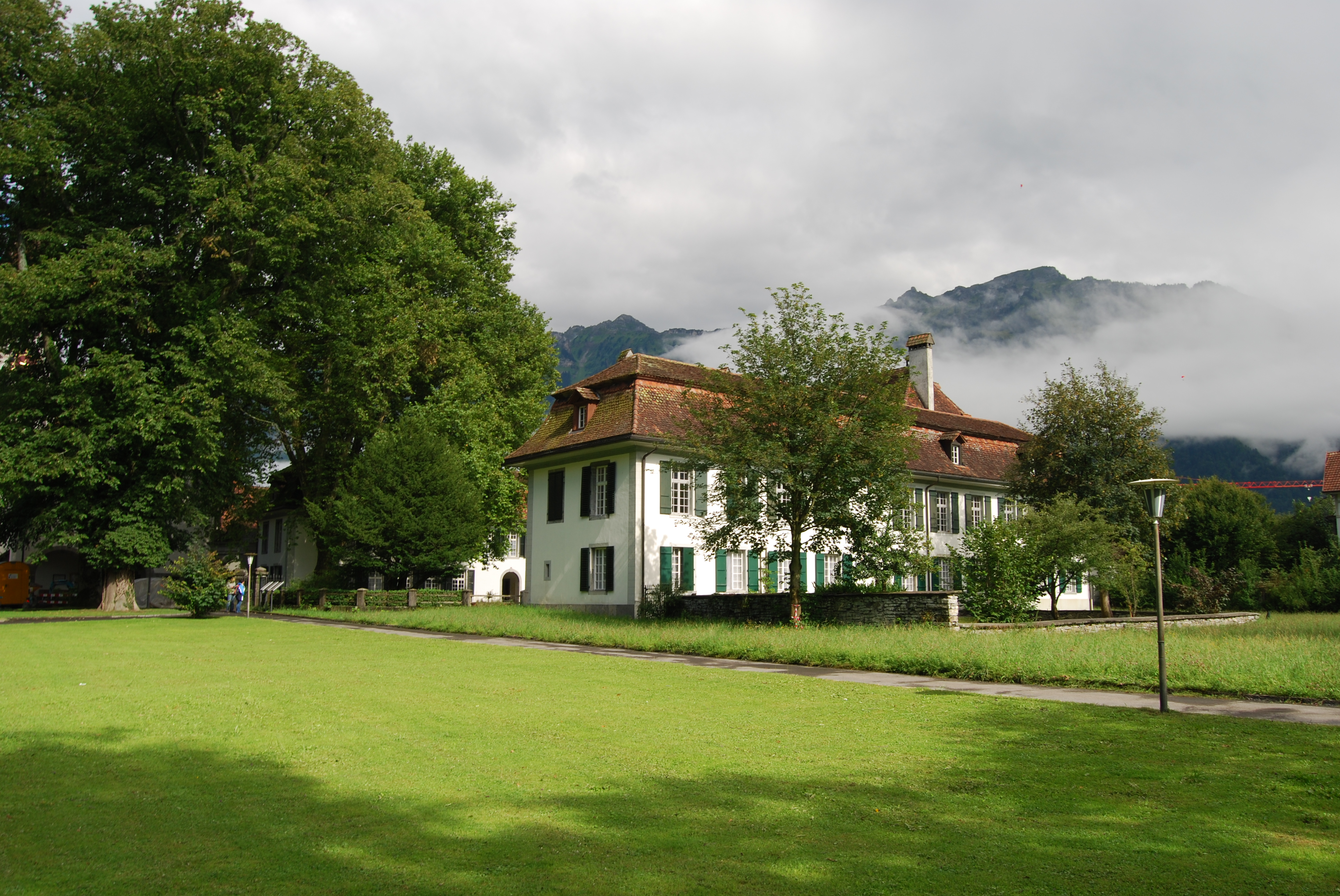 Castle Interlaken, canton of Bern, Switzerland